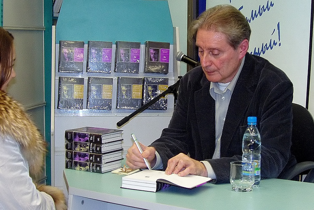 Veniamin Smekhov - Russian actor